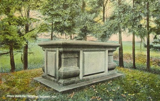 Sir William Pepperrell's tomb, Kittery Point, Maine; from a c. 1908 postcard published by the Hugh C. Leighton Company, Portland, Maine.